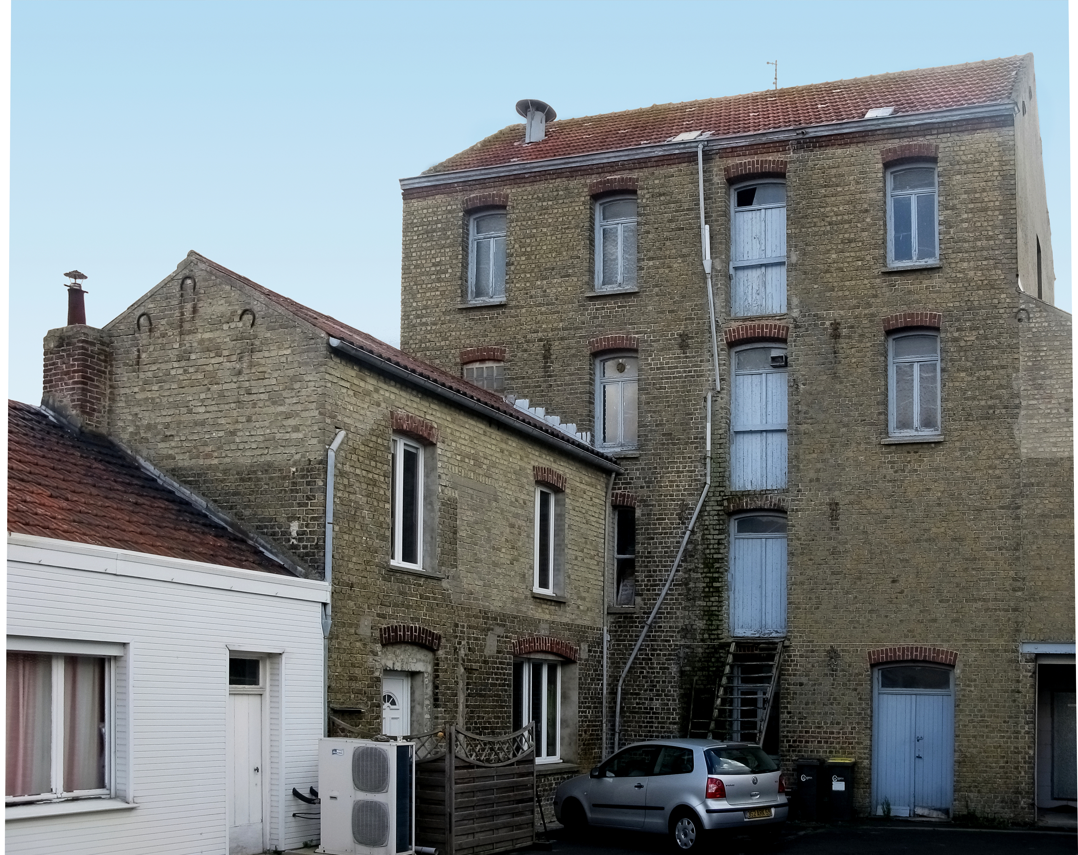 Flourmill Chevalier, seen from the courtyard, in Coppenaxfort.